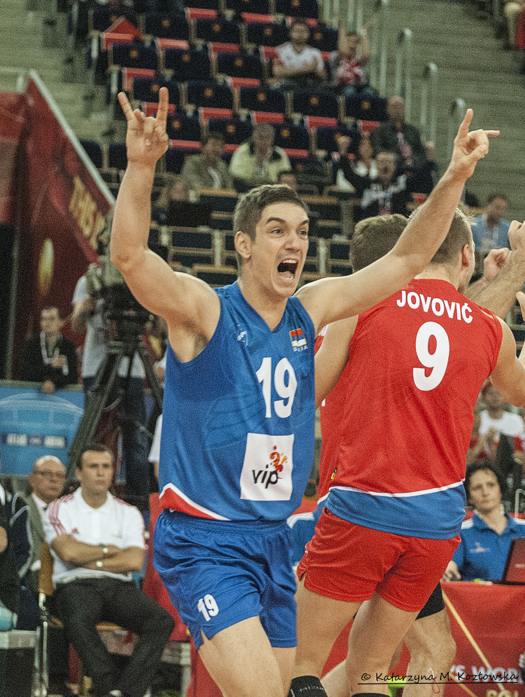 Nikola Rosić playing for Serbia in 2014 FIVB Volleyball World Championship in Poland.